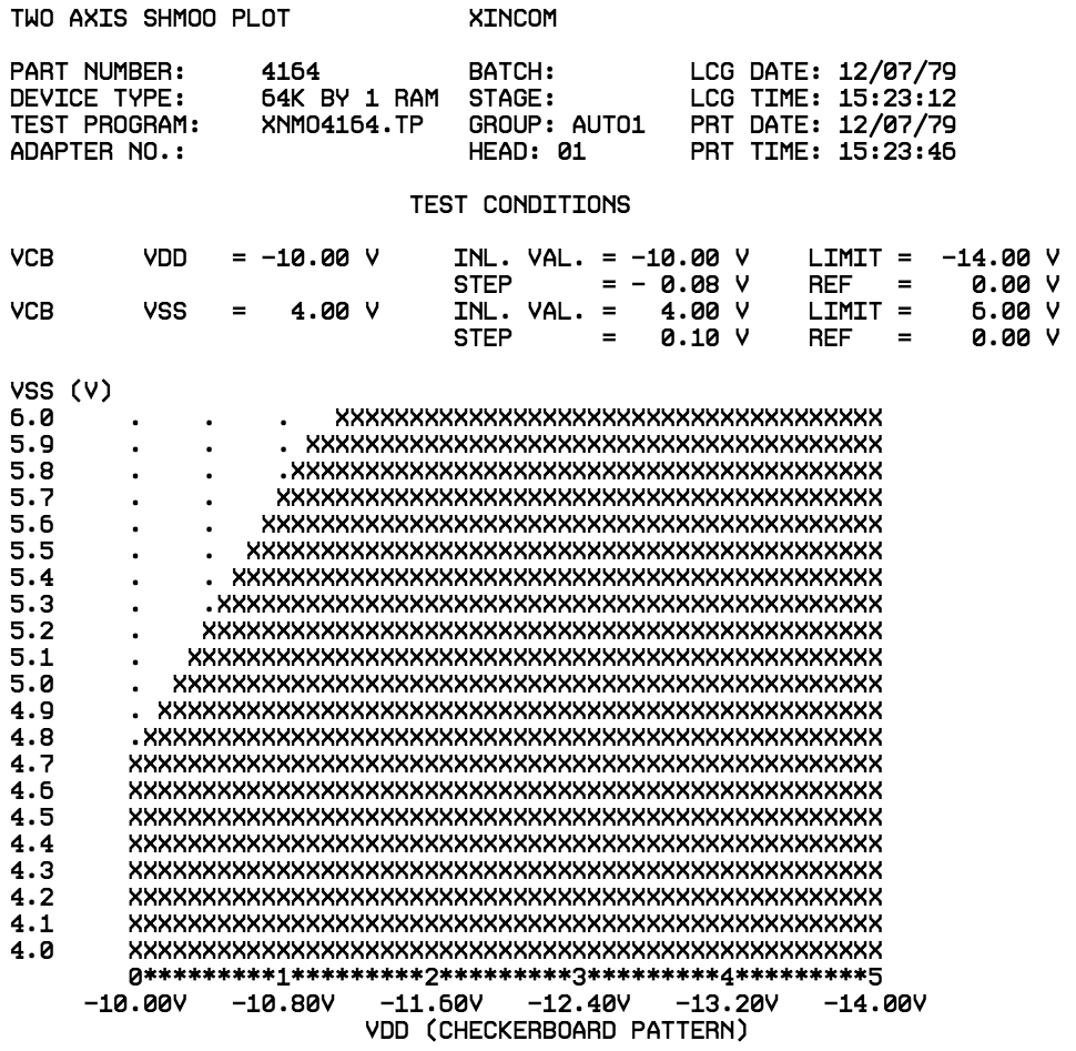 Typical (normal) shmoo plot of a 64K DRAM